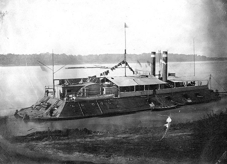 Removed caption read: Photo # NH 63211 USS Cincinnati, circa 1862-63 Photographed on the Western Rivers in 1862-63. Note laundry drying on lines rigged from her mainmast, and awnings spread over her upper deck. U.S. Naval Historical Center Photograph.